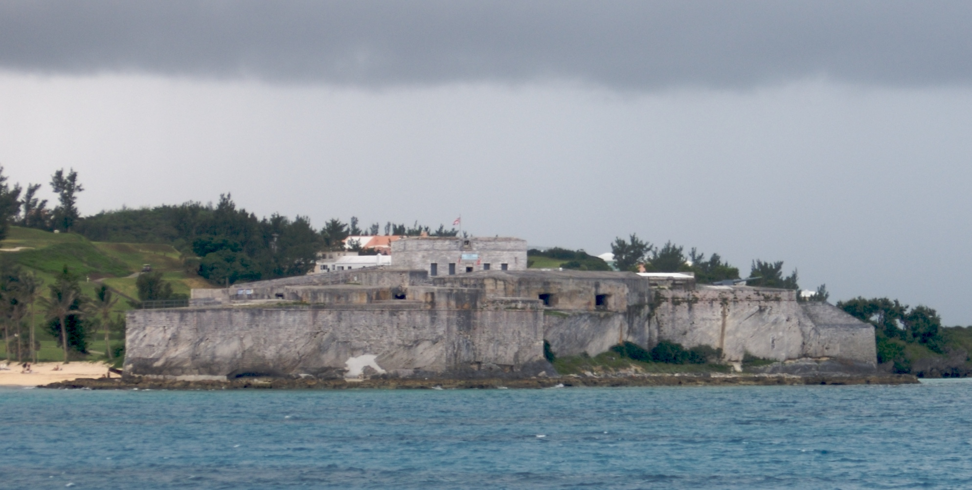 Fort St Catherine, St George's Island, Bermuda, viewed from the water. At left is the open-plan gun floor. Center are the Haxo casemates, at far right is BL 6 inch Mk VII gun (not easily visible).